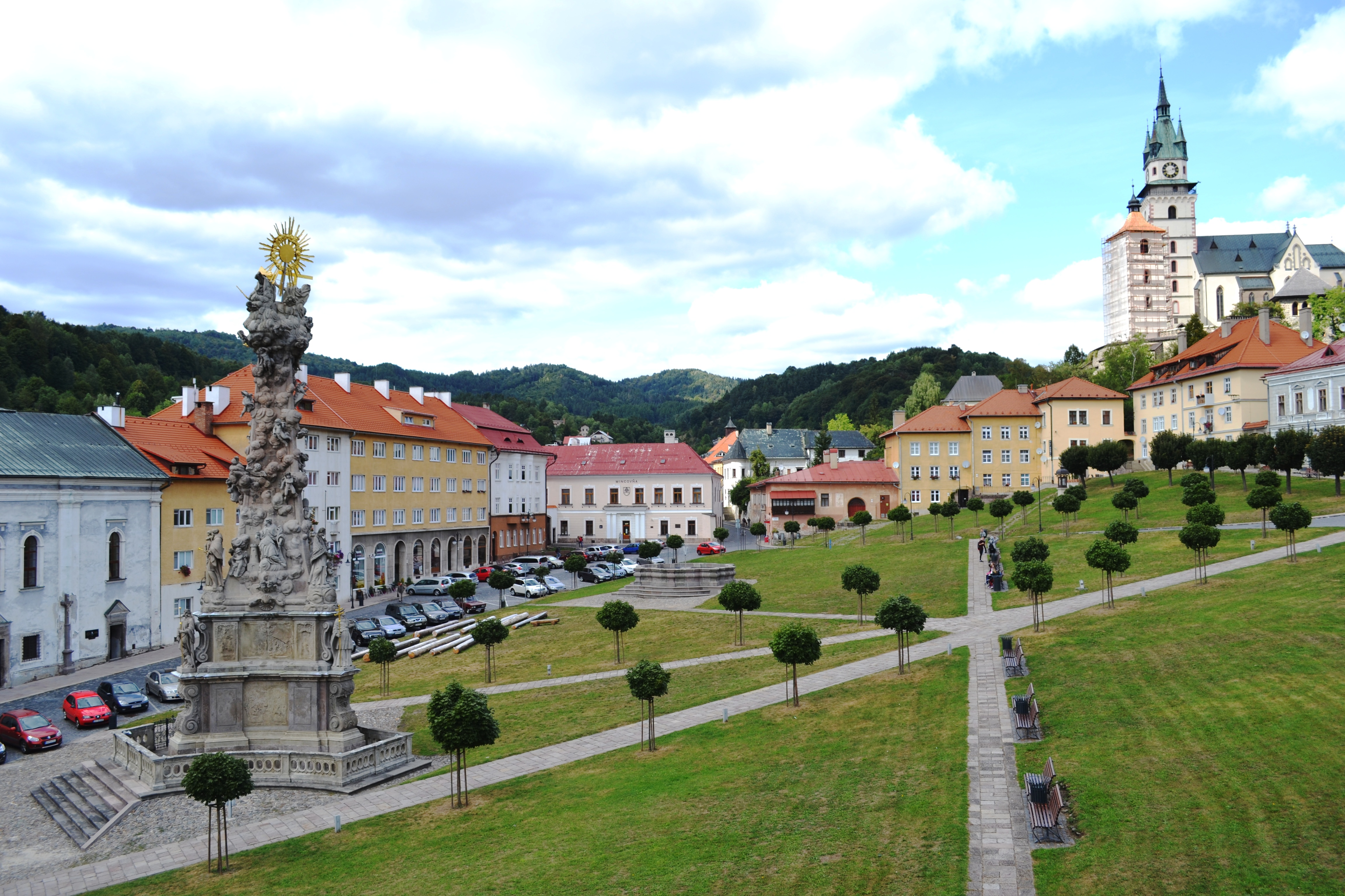 Štefánik Square in Kremnica